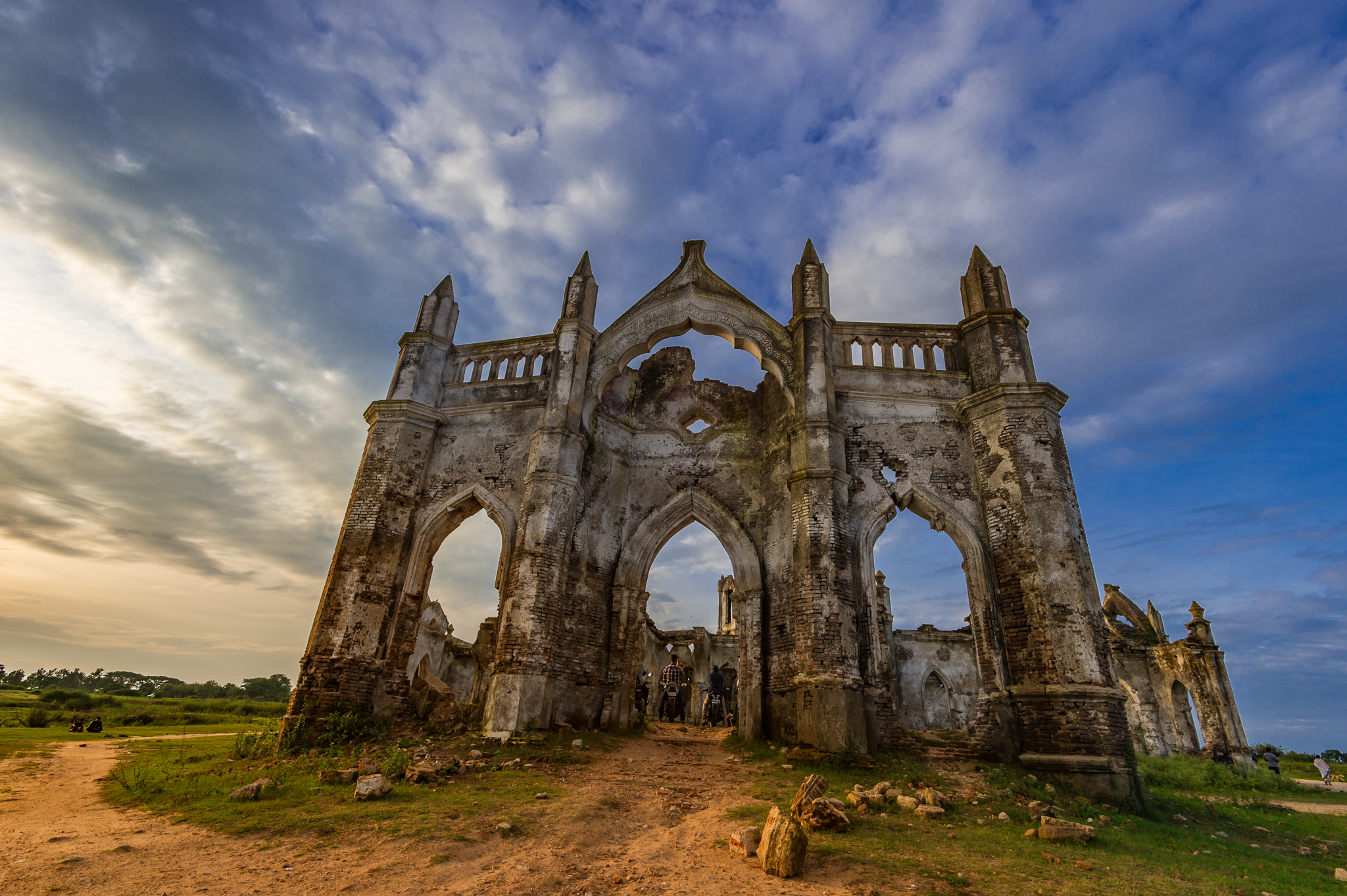 Shettihalli Church is located 22 km from Shettihalli, in Karnataka. Built in the 1860s by the French missionaries, the church is a magnificent structure of Gothic Architecture. After the construction of the Hemavati Dam and Reservoir in 1960 the church was abandoned.